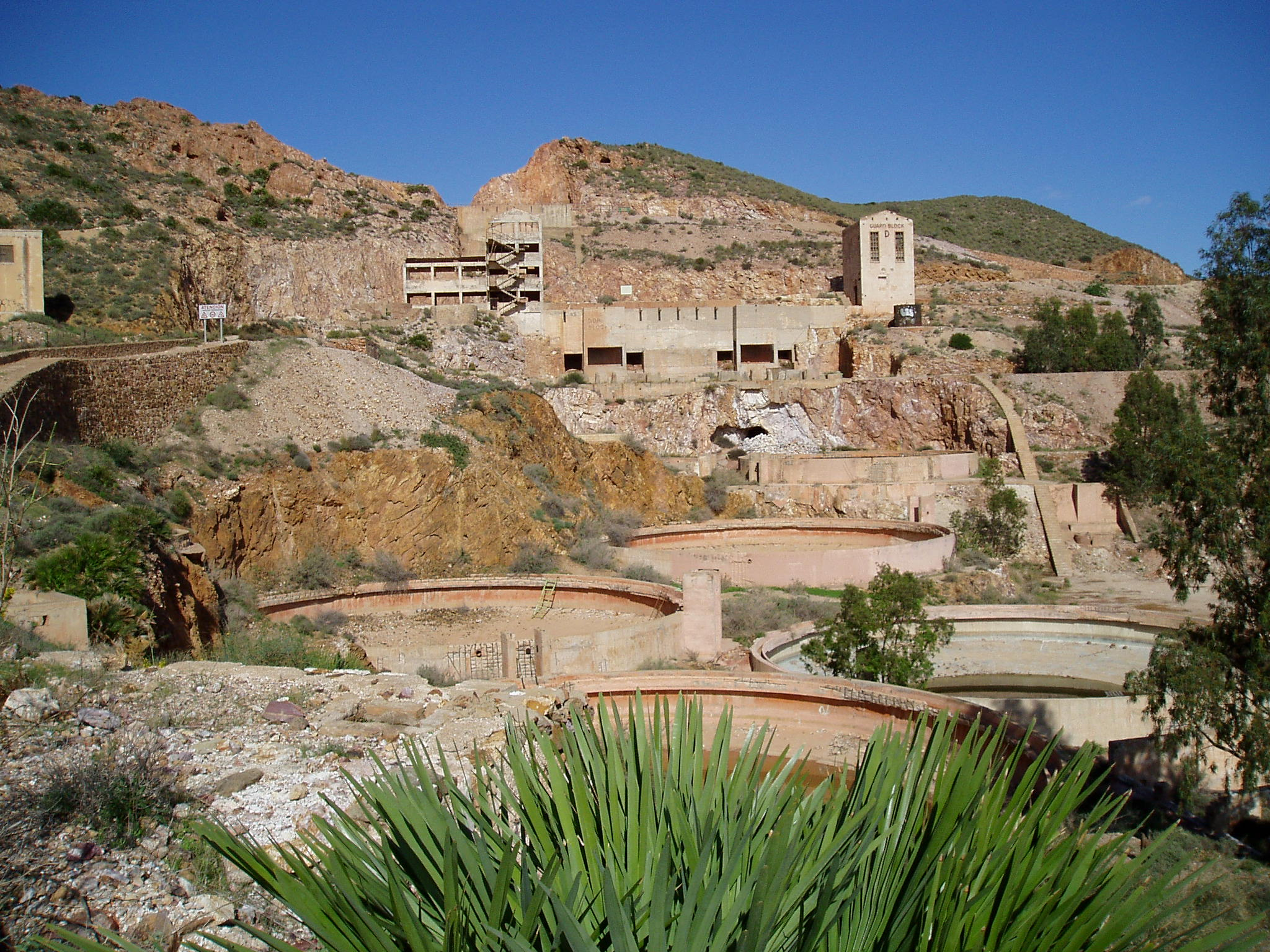 Ruins of the former gold mining factory „Planta Denver“ in Rodalquilar in Andalusia, Spain